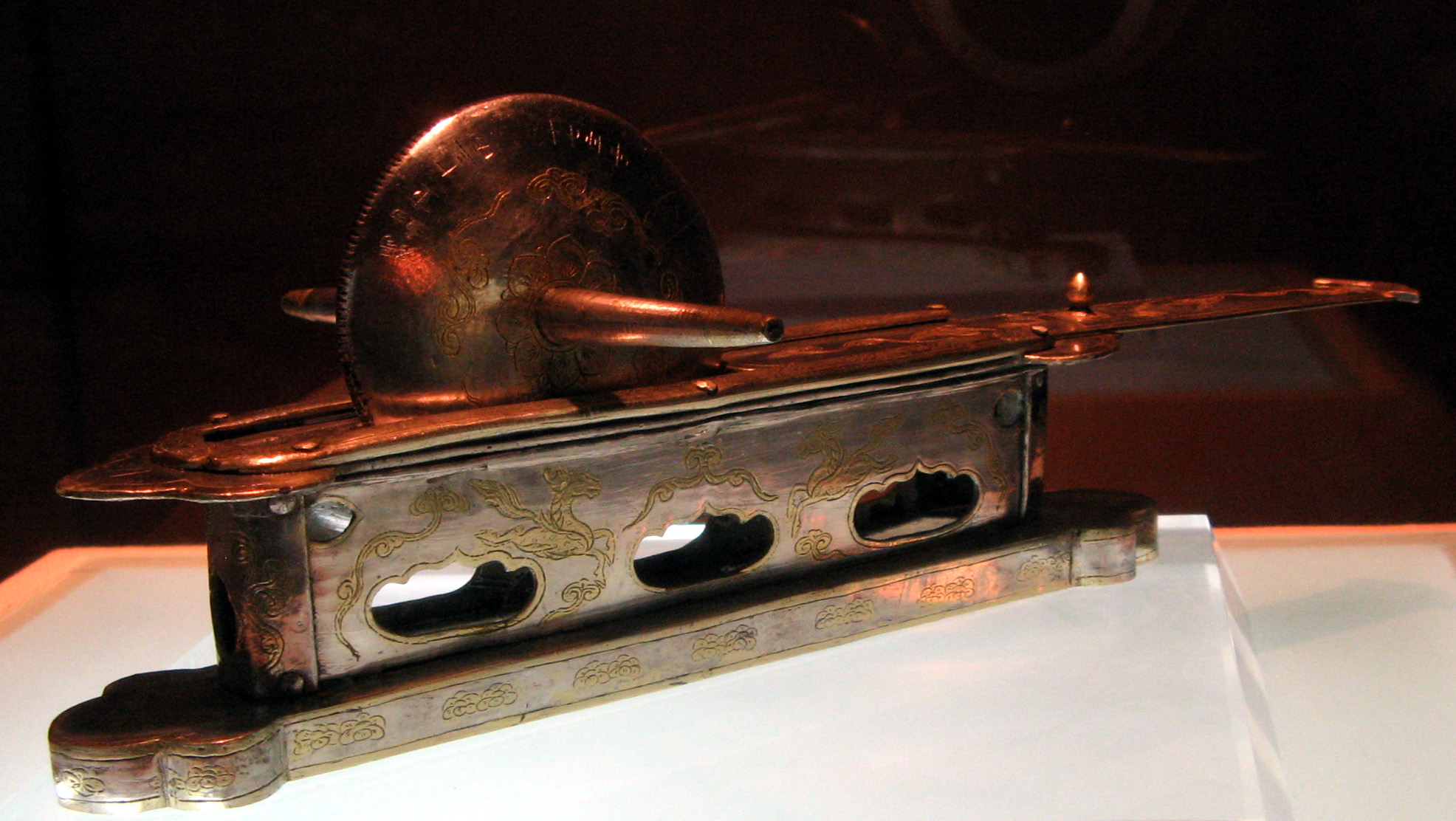 Tea Grinder. Tang Dynasty, Famen Si Both a functional tool and a work of art, this grinder with its serrated disk was used to grind the tea leaves to powder. This object is one of a set from an imperial tea-service. Its inclusion in the Famen Si crypt is early evidence for the importance of tea in China.